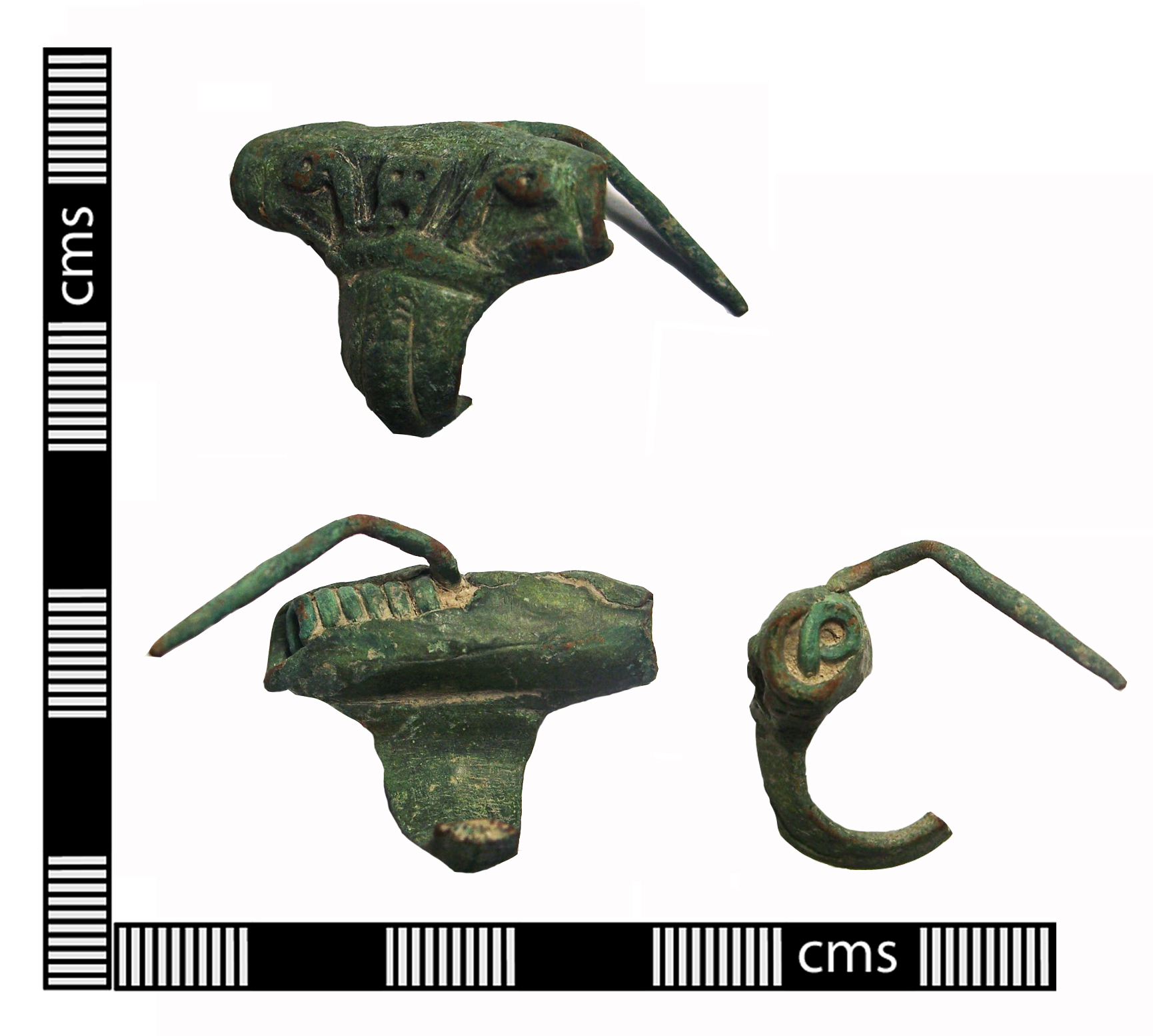 An incomplete cast copper alloy fragment of a Late Iron Age to early Roman Langton Down brooch of Nertomarus type. Only the spring and cylindrical spring cover, the head and a small part of the bow survives. Where the spring cover is broken, six coils can be seen above. The pin is mostly missing. The head is decorated in relief with a triangular moulding enclosing three dots, between two scroll mouldings (Cf. Hattatt no.270, “hooks and eyes”). Unlike the other recorded examples, the design on this brooch is very clear. On this example, the design appears to resemble a shouting man with clenched fists raised above the head. The brroch is 27.98mm wide, 22.50mm long and weighs 13gms.